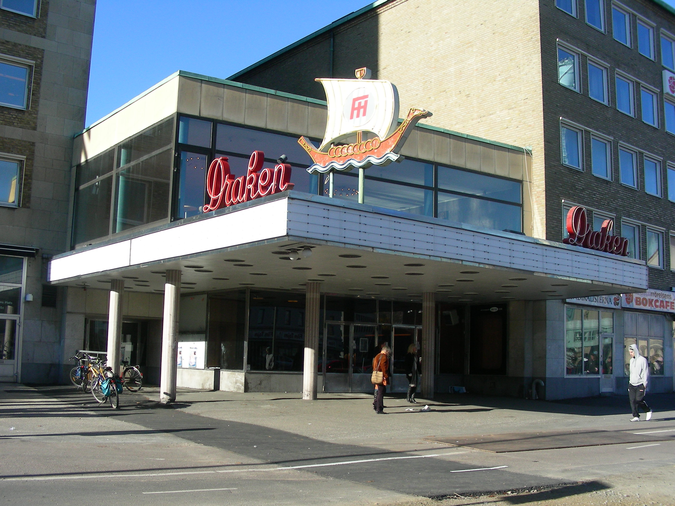 Draken, big screen cinema from 1956 (Draken (biograf, Göteborg) Camera: Nikon Coolpix S4 Location: Järntorget, Gothenburg, Sweden.